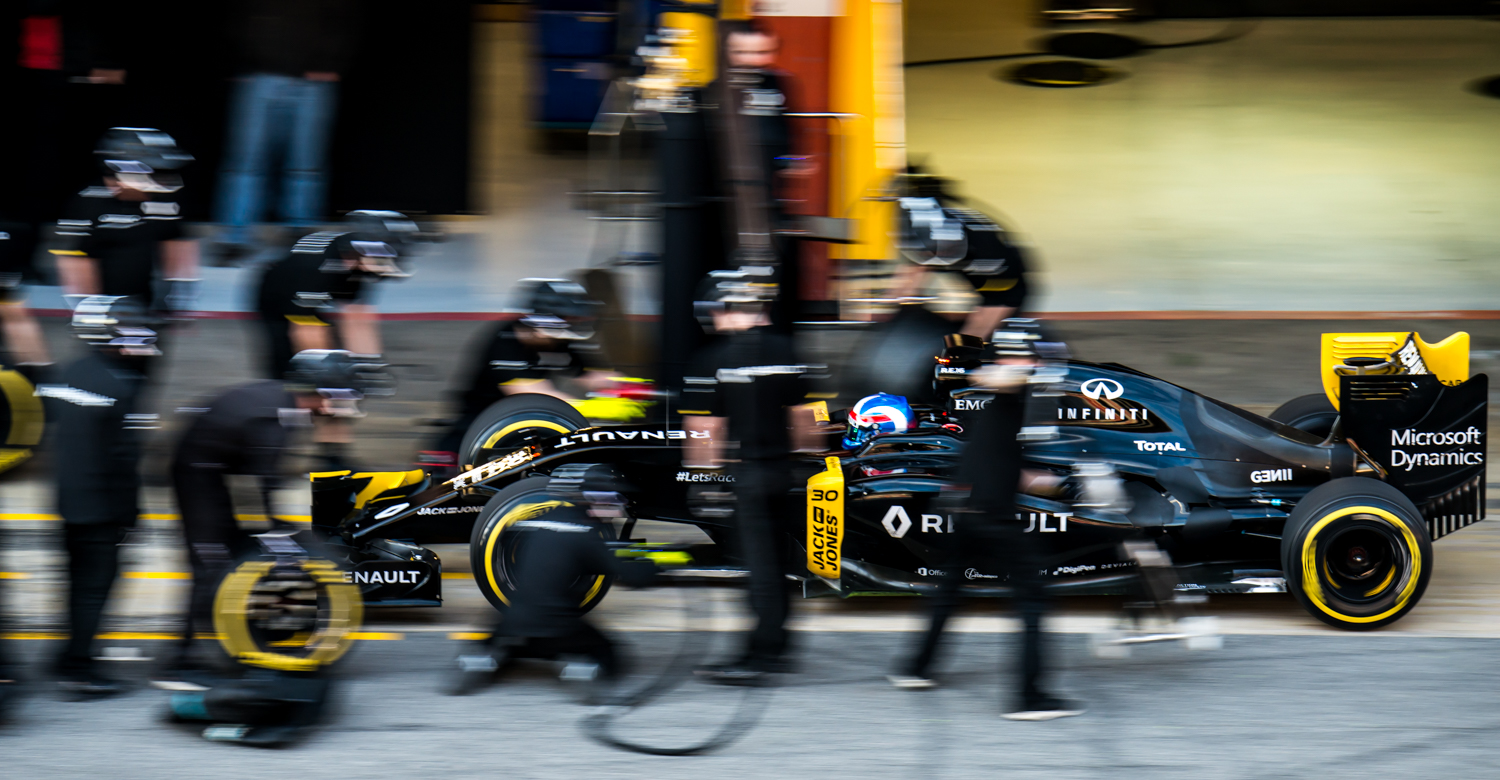 Jolyon Palmer in a Renault RS 16 - Practice pit stop during 2016 Winter testing in Barcelona